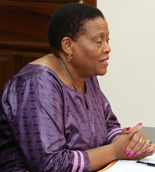 Kinshasa, DR Congo: Mrs. Faith Pansy Tlakula, Chairperson of the African Commission for Human and People’s Rights and Special Rapporteur on Freedom of Expression and Access to Information in Africa, exchanging on 2 October 2017 during her official visit to the DRC with the Minister of Human rights, Mrs. Marie-Ange Mushobekwa on possible Government support to ensure the adoption and implementation of an "Access to information Law" that is compliant with international norms and standards. Mrs. Tlakula was jointly invited by the National Human Rights Commission and the United Nations Joint Human Rights Office (UNJHRO) to lend her support to the DRC for the adoption of the Access to information Bill already passed by the Senate since October 2015 and currently tabled before the National Assembly.